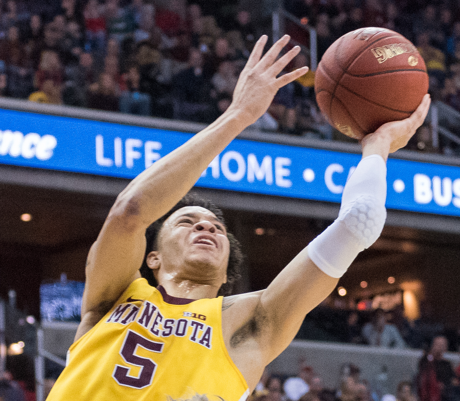 Jordan Murphy of Minnesota